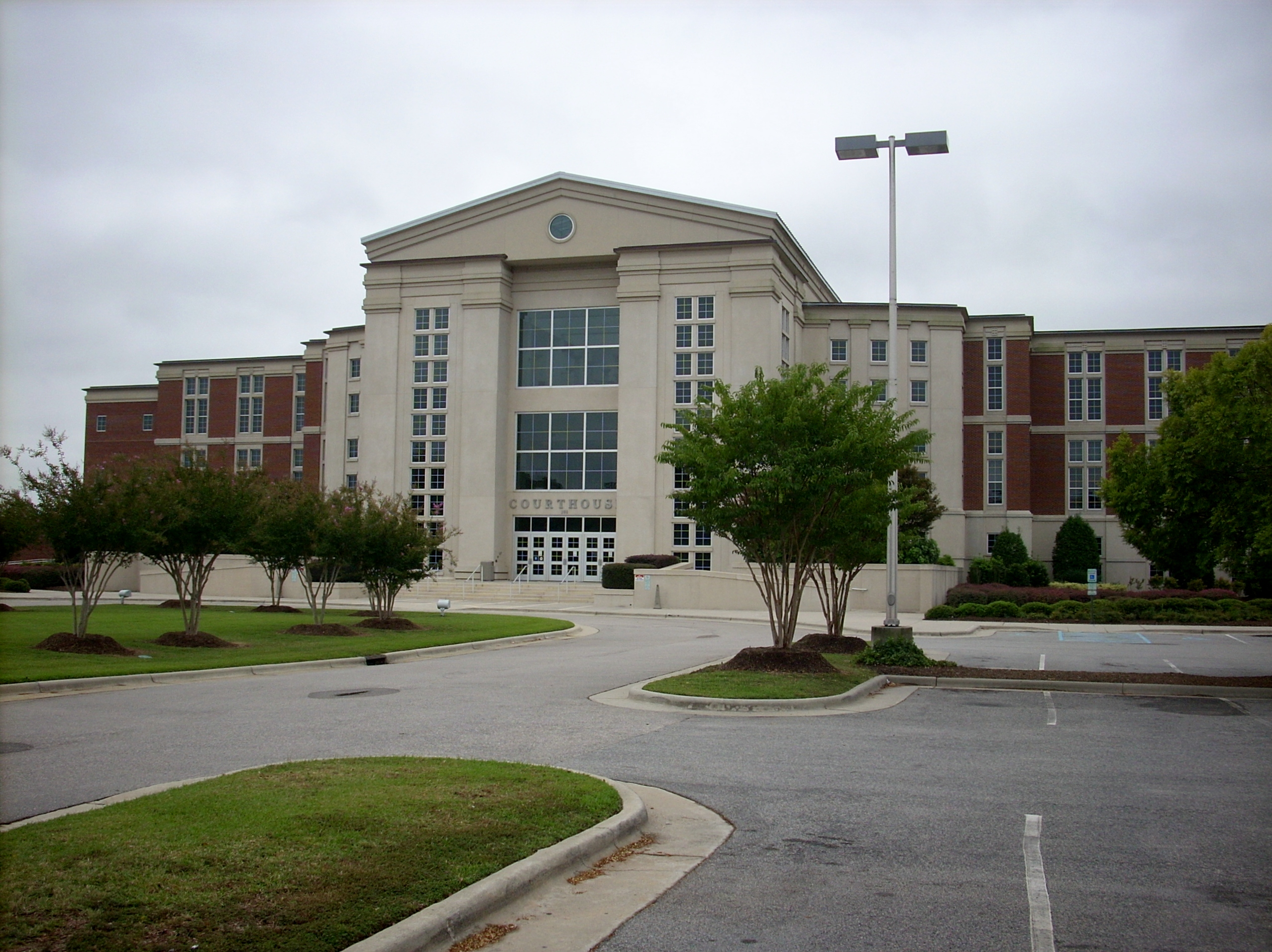 The Harnett County Courthouse is on the edge of Lillington, North Carolina. It was built recently and replaces a historical courthouse in downtown Lillington that has since been torn down